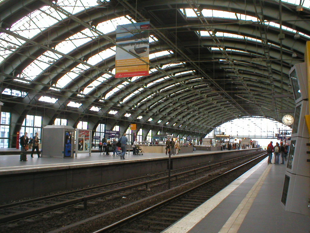 Train hall of the station Ostbahnhof ("East Station") in Berlin